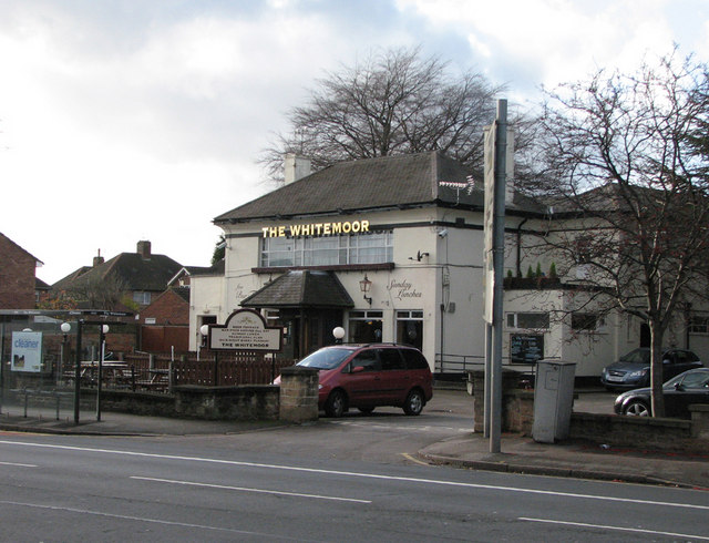 The Whitemoor A 1930s pub on Nuthall Road, where Bobbers Mill shades into Whitemoor.